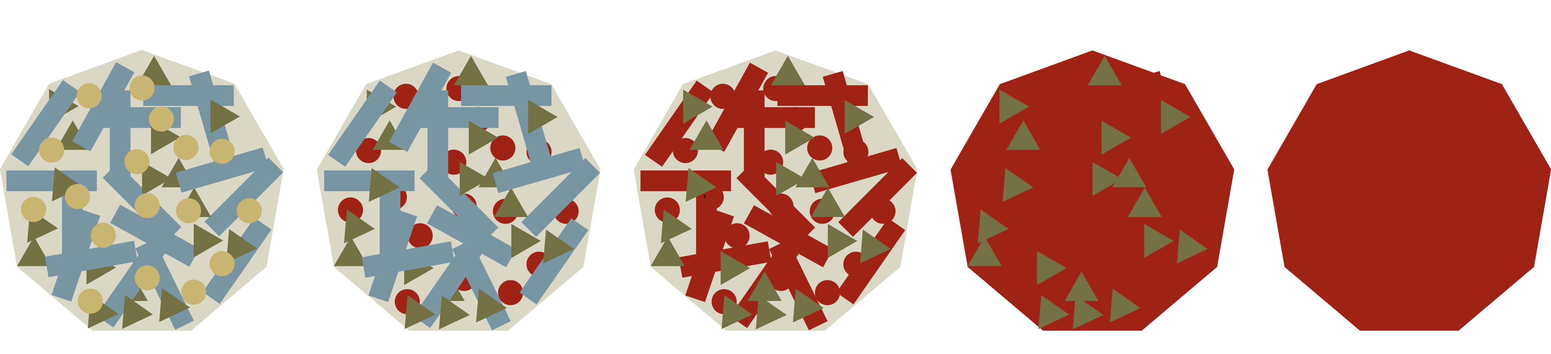 Partial melting- the phenomenon whereby some minerals in a material melt at low temperatures while others remain solid. Eventually, at a high enough temperature, all minerals will melt.